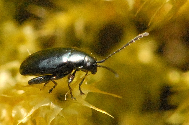 Phyllotreta nigripes from Commanster, Belgian High Ardennes .